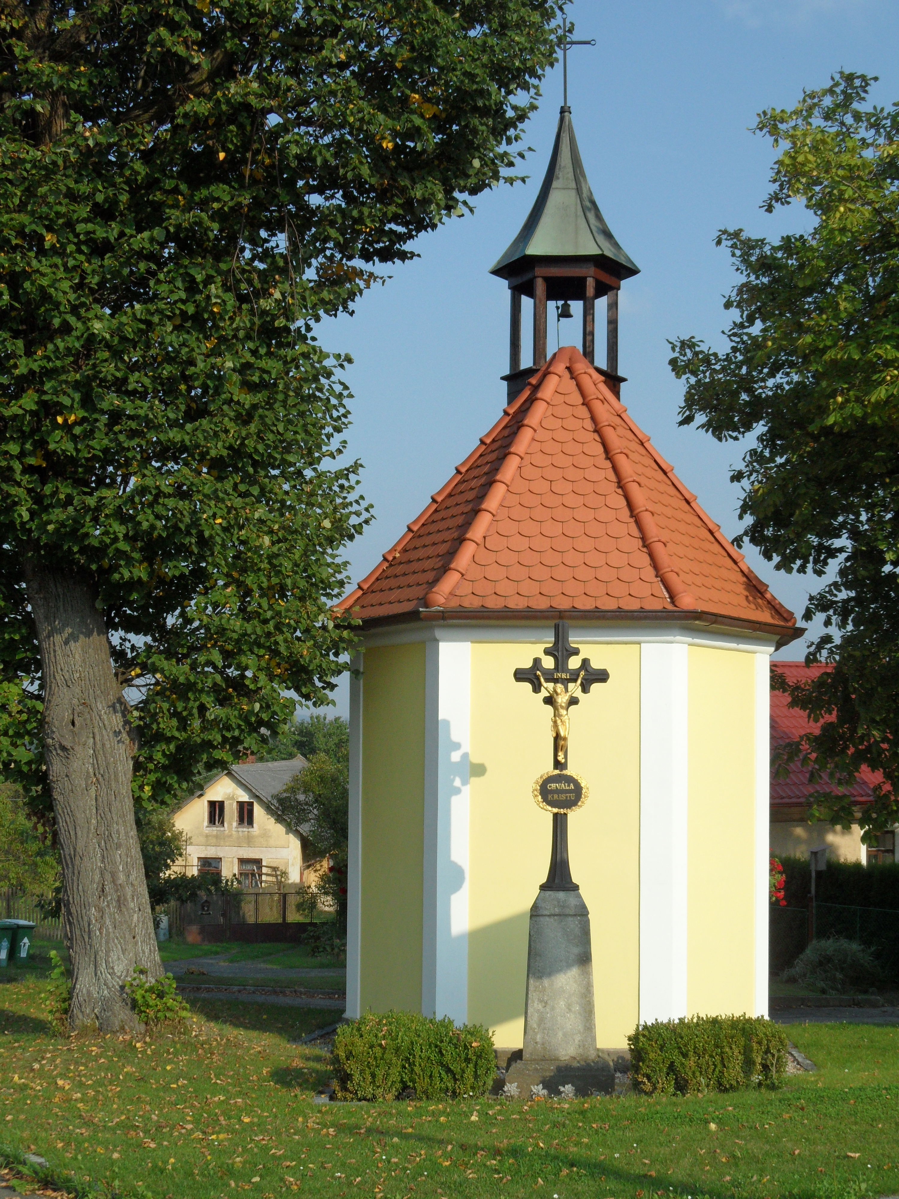 Jiřice (Řendějov) E. Chapel: View from Main Road, Kutná Hora District, the Czech Republic.